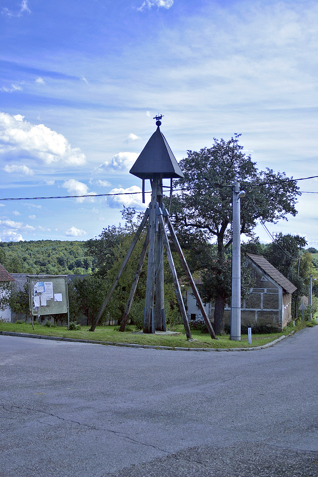 Ivanjševci Slovenia